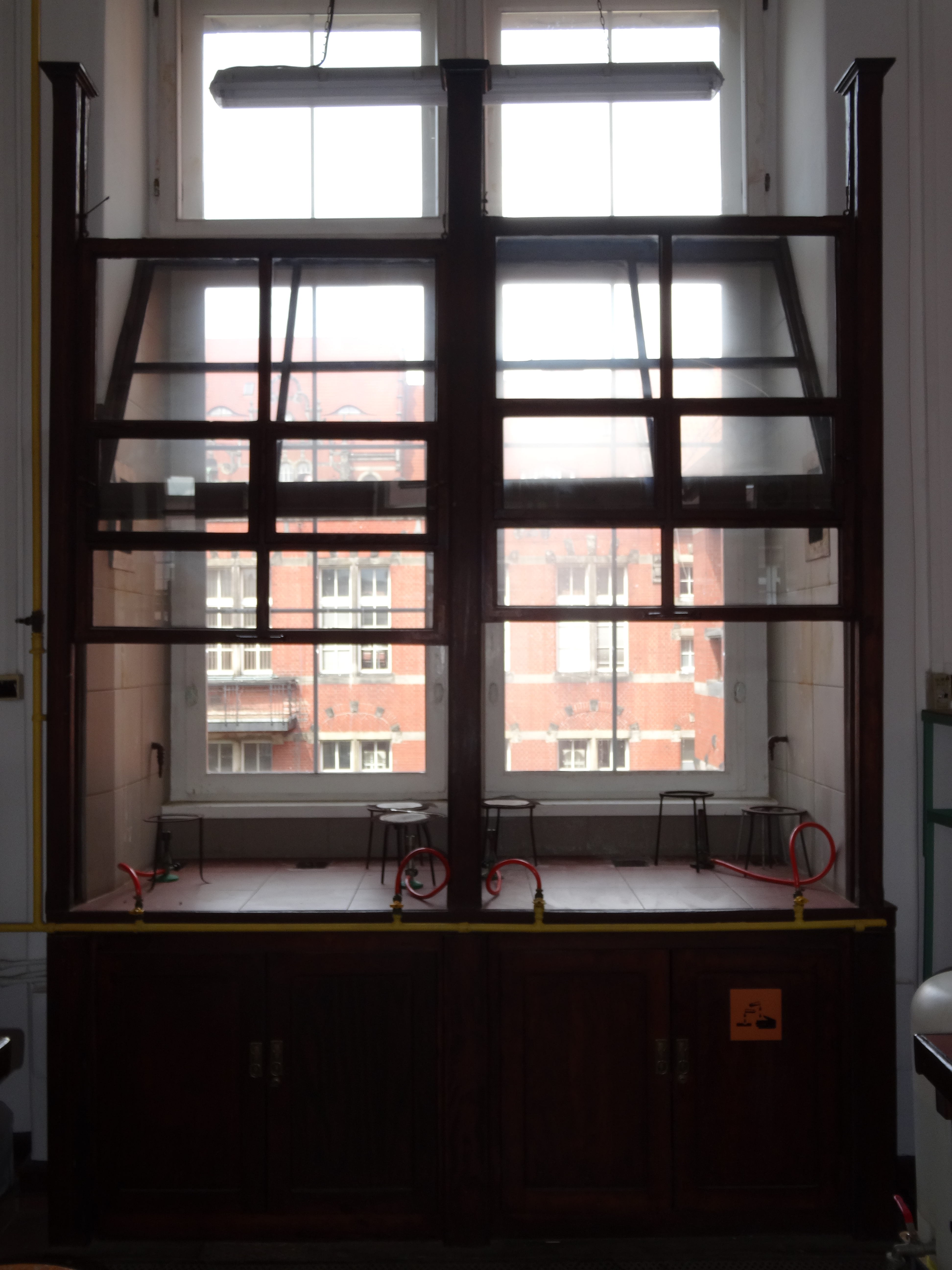 Wooden fume hood Gdansk University of Technology, Department of Analytical Chemistry, 1904